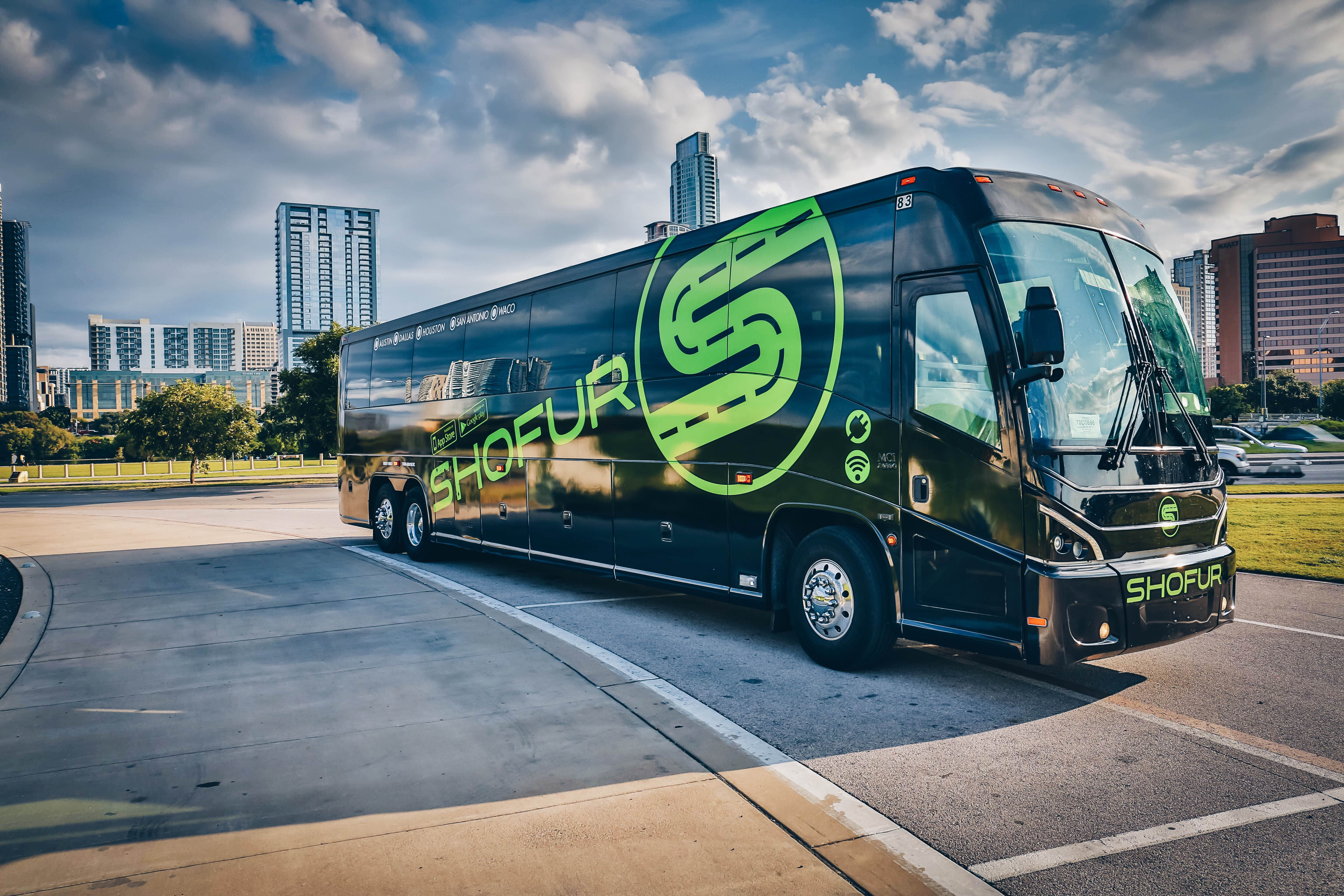 Shofur charter bus